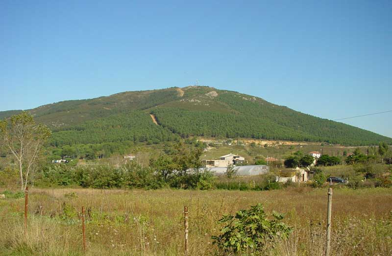 Aydos Dagi is the highest point of Istanbul where is located on the district Kartal. Photograph: 2005 by Cem YILDIZ